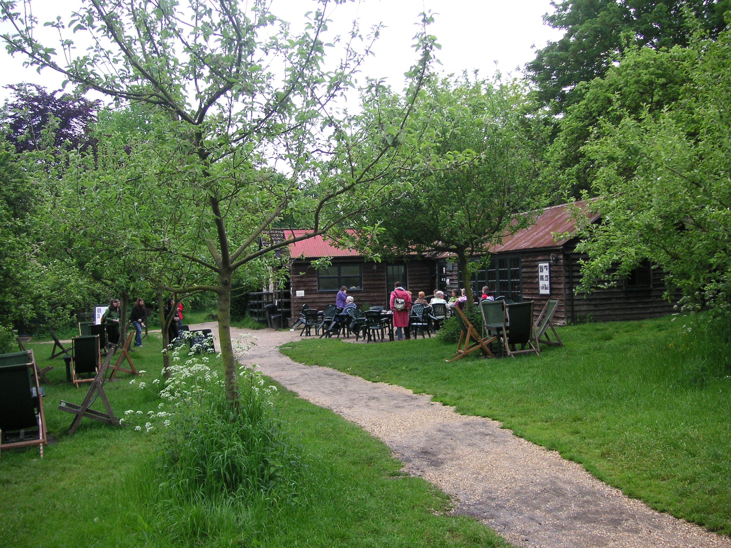 The Orchard, Grantchester, near Cambridge, England. Photo by KF, May 2007.